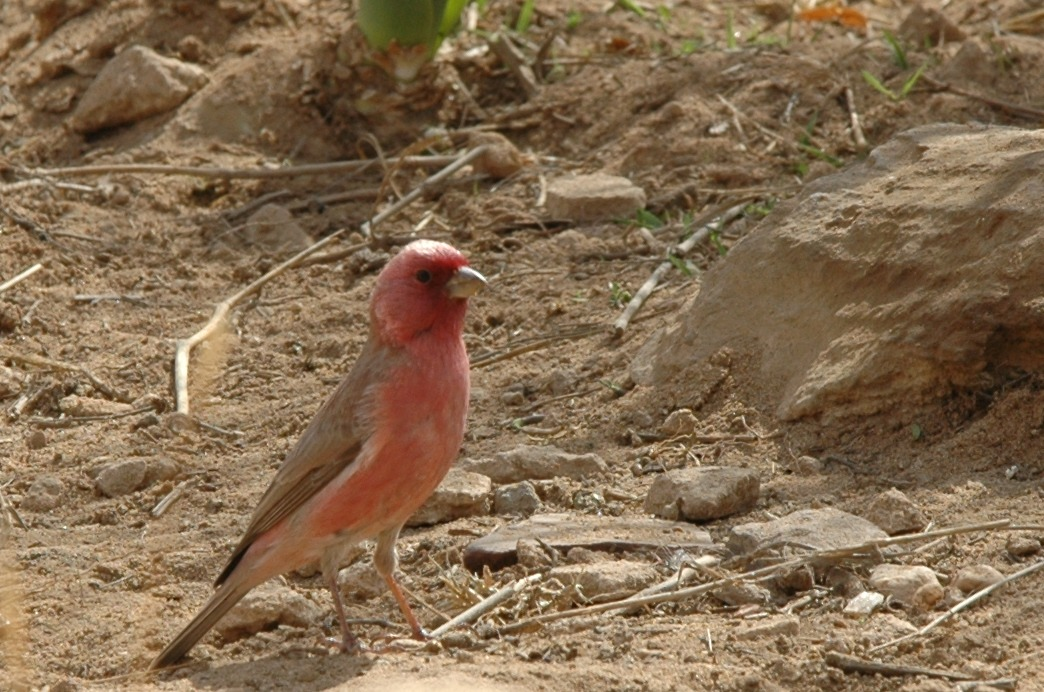 Carpodacus synoicus, male, Dana Nature Reserve, Jordan